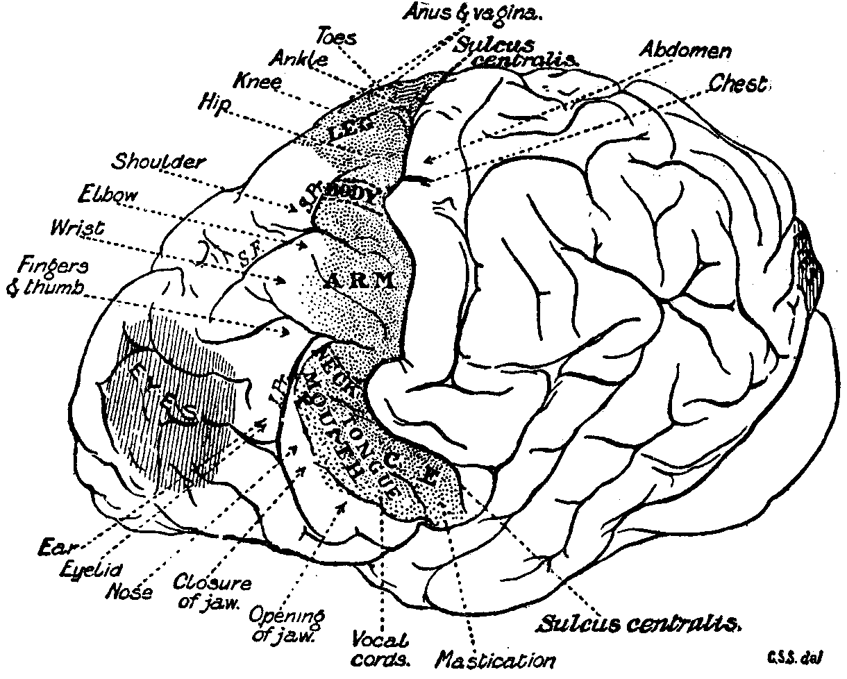 Diagram of the Topography of the Main Groups of Foci in the Motor Field of Chimpanzee. Cleaned version of scanned EB image taken from